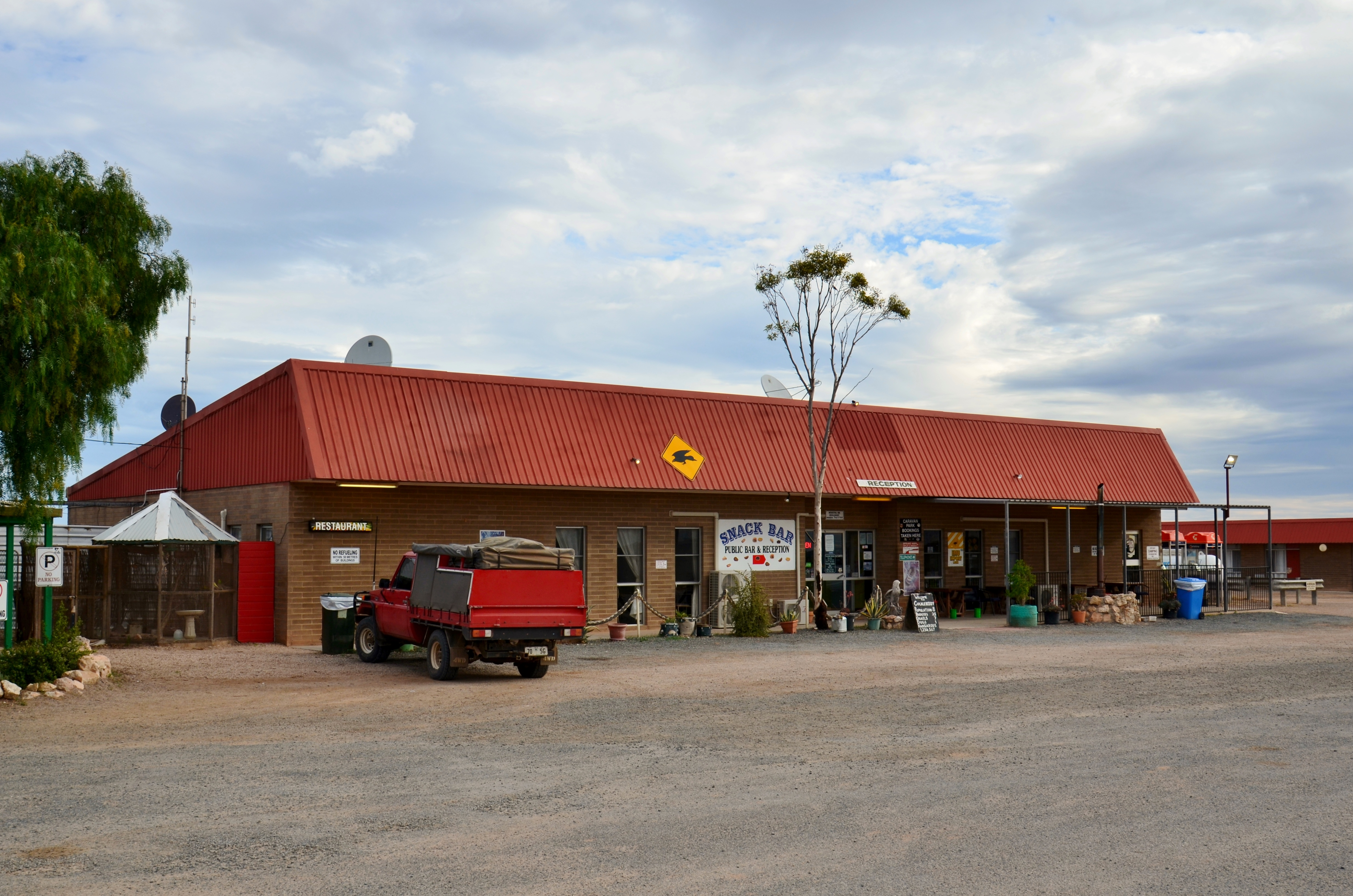 View of the Wedgetail Inn, which is part of the roadhouse at Cocklebiddy, Western Australia.